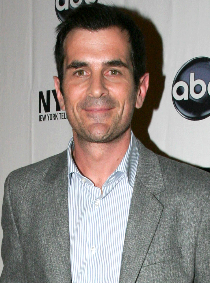 Ty Burrell at the New York Television Festival 2009.